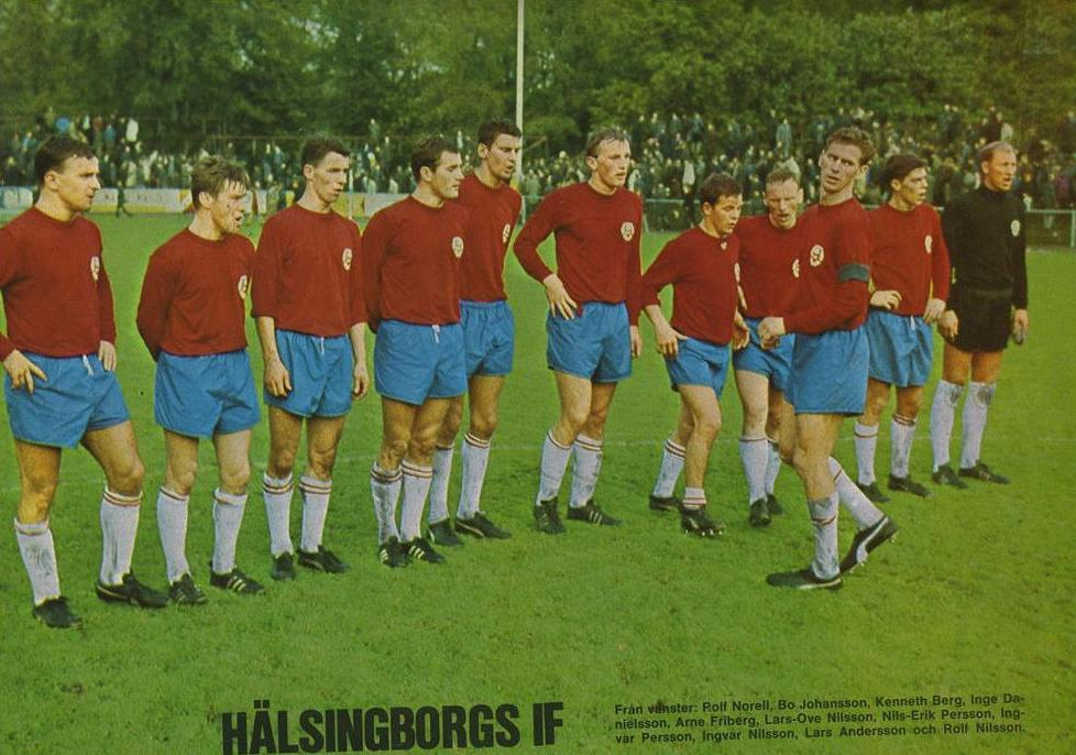 1968 team photo of Hälsingborgs IF (modern spelling Helsingborg IF)